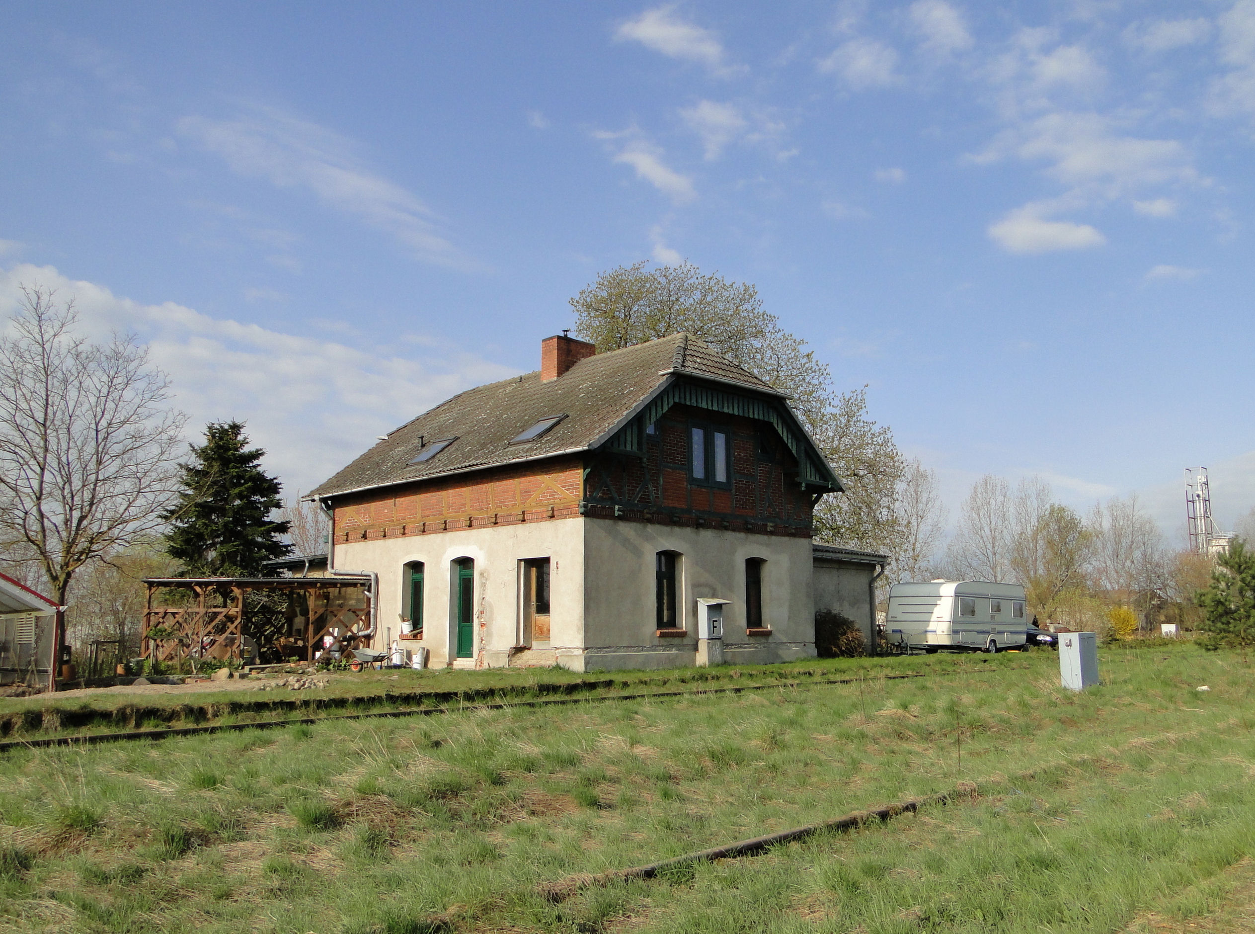 Former building of train station in Altenhof, disctrict Müritz, Mecklenburg-Vorpommern, Germany